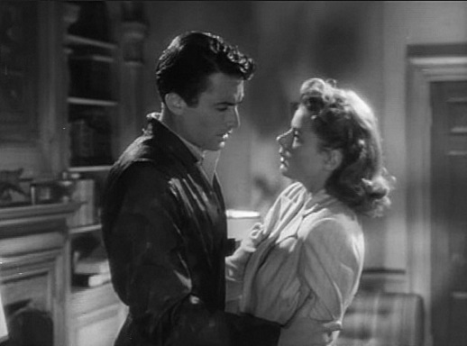 Gregory Peck and Ingrid Bergman in a scene from a Spellbound film.